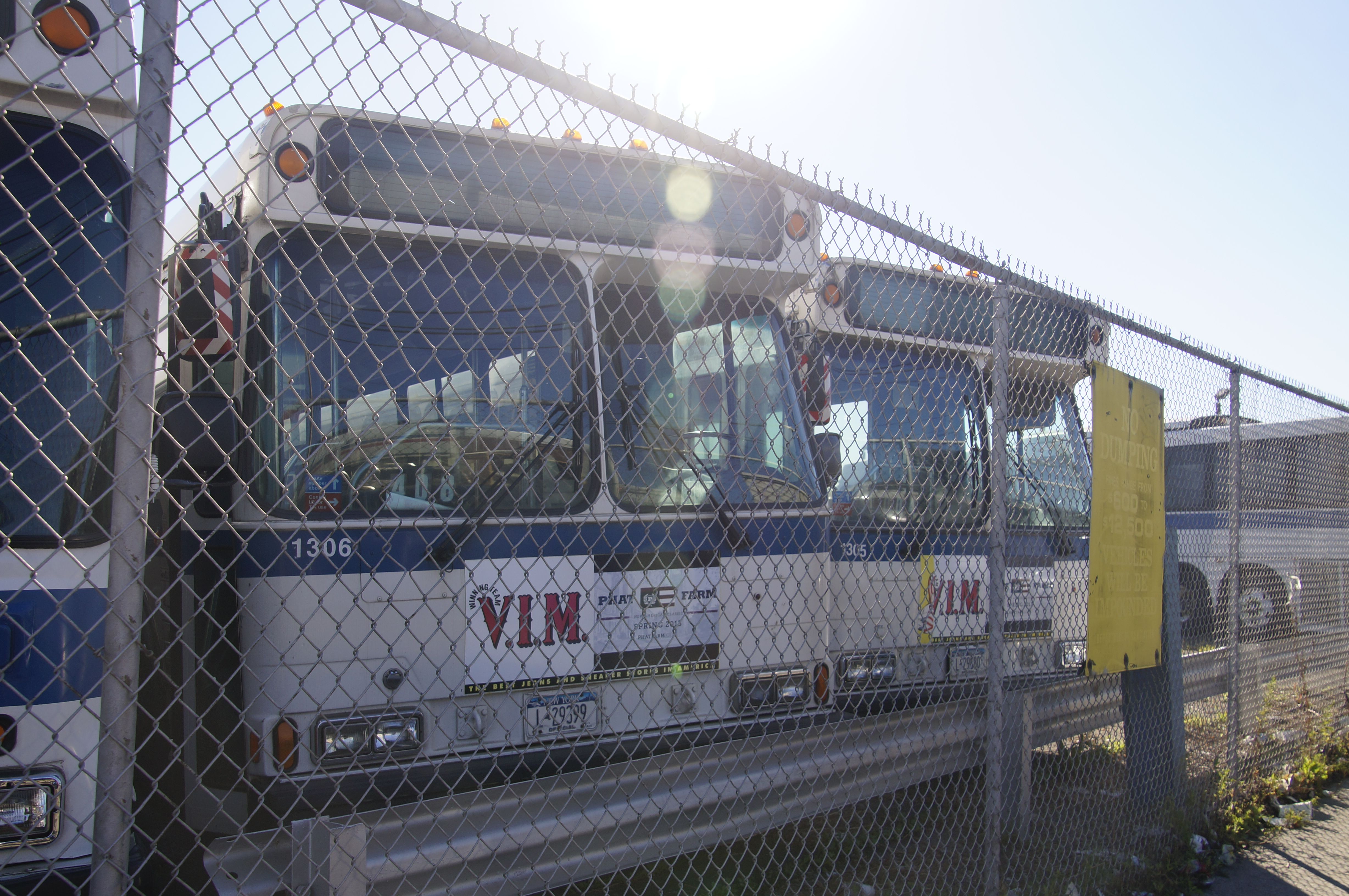 MTA NYC Orion 5 (05.501) 1305 & 1306 (ex-639 & 647) both at Eastchester Bus Depot